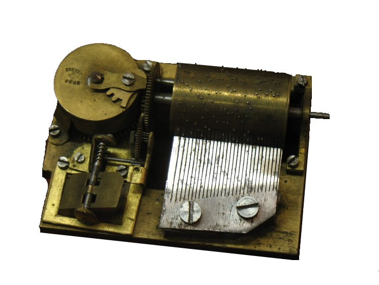 small musical box mecanism without background